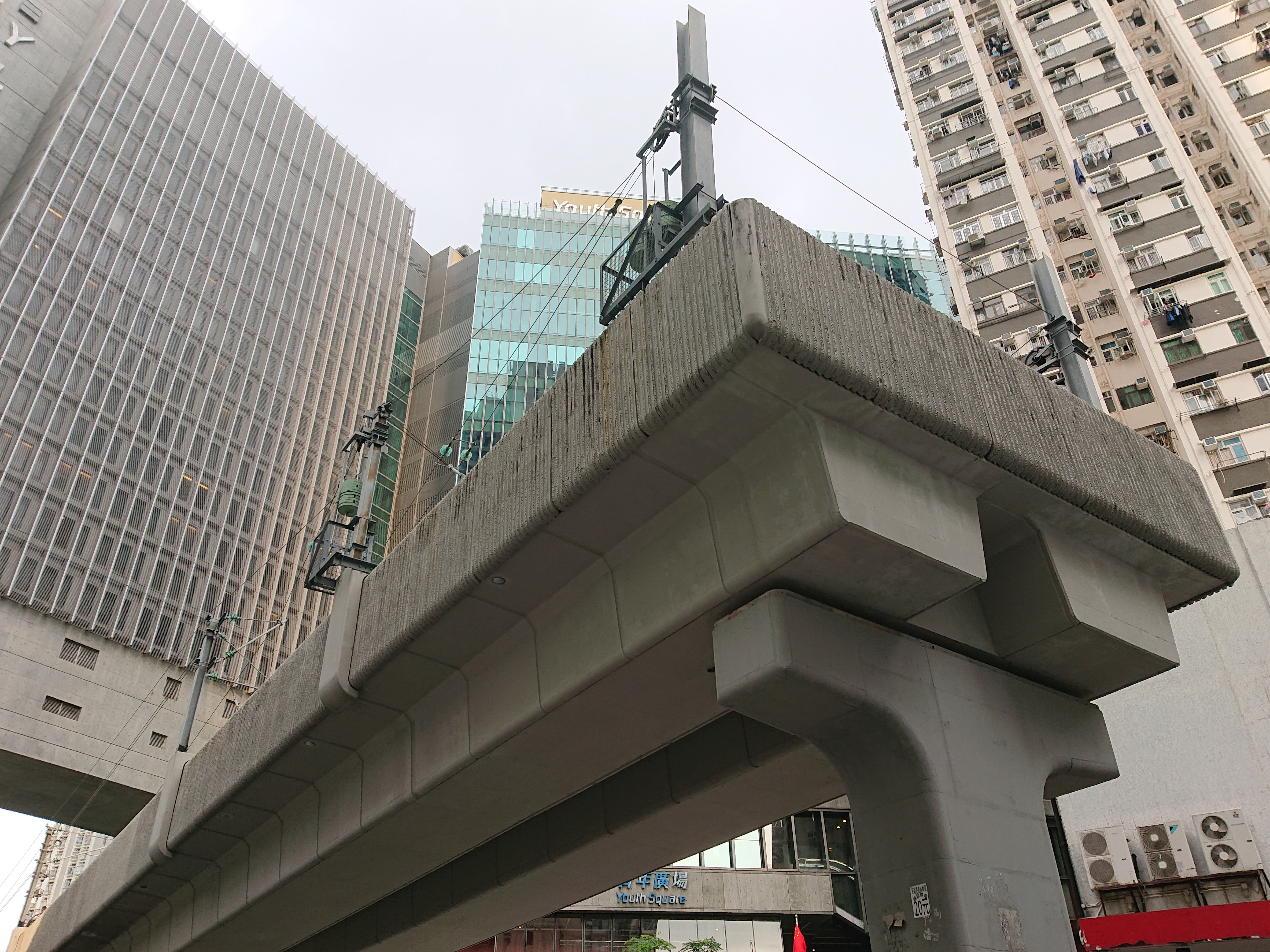 The End Of Island Line in Chai Wan